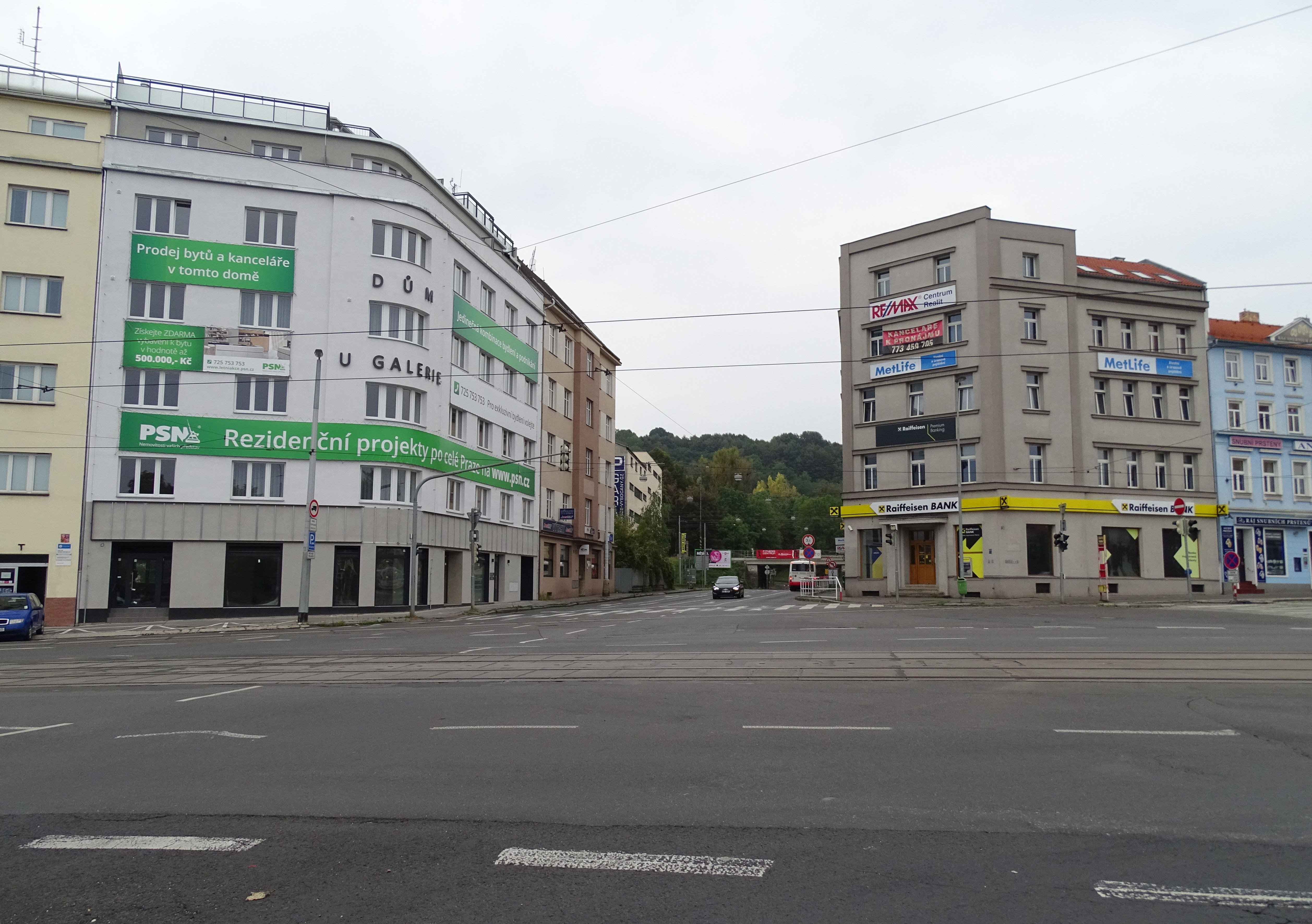 Prague-Vysočany, Czechia. UNO Square, from Freyova to Jandova street.